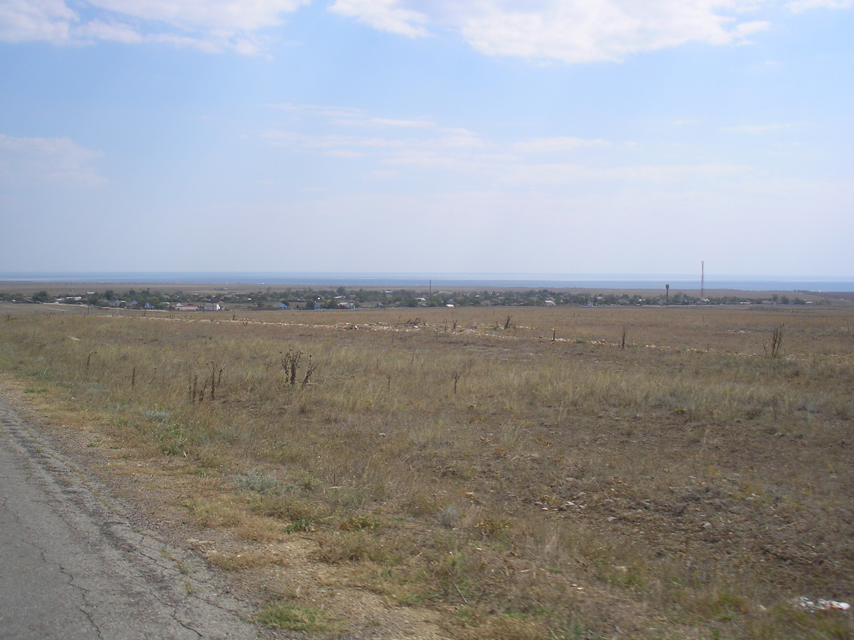 Village Gromovo, Chernomorski Raion